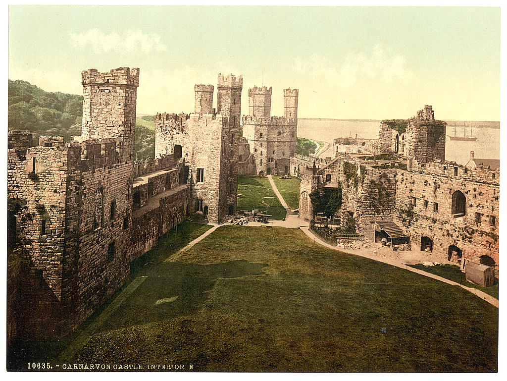 [Interior, looking east, Carnarvon Castle (i.e. Caernarfon), Wales] [between ca. 1890 and ca. 1900]. 1 photomechanical print : photochrom, color. Notes: Title from the Detroit Publishing Co., catalogue J--foreign section. Detroit, Mich. : Detroit Photographic Company, 1905. Print no. "10635". Forms part of: Views of landscape and architecture in Wales in the Photochrom print collection. Subjects: Wales--Caernarfon. Format: Photochrom prints--Color--1890-1900. Rights Info: No known restrictions on reproduction. Repository: Library of Congress, Prints and Photographs Division, Washington, D.C. 20540 USA, Part Of: Views of landscape and architecture in Wales (DLC) 2001700652 More information about the Photochrom Print Collection is available at Persistent URL: Call Number: LOT 13408, no. 060 [item]